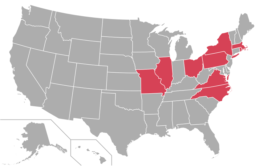 Derived from [1]; map of states with Atlantic 10 schools.